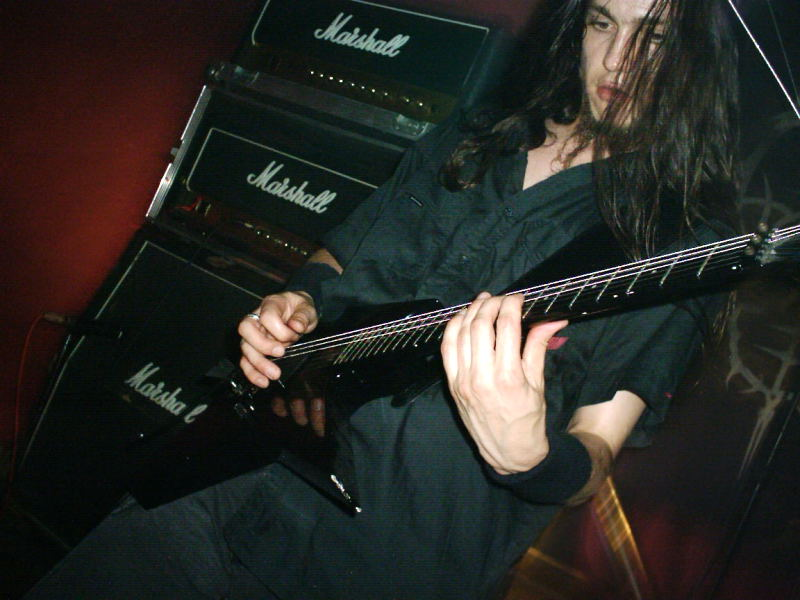 8.06.2004, Rzeszów, Rejs, Empire Invasion Tour 2004, Dies Irae band - Maurycy "Mauser" Stefanowicz